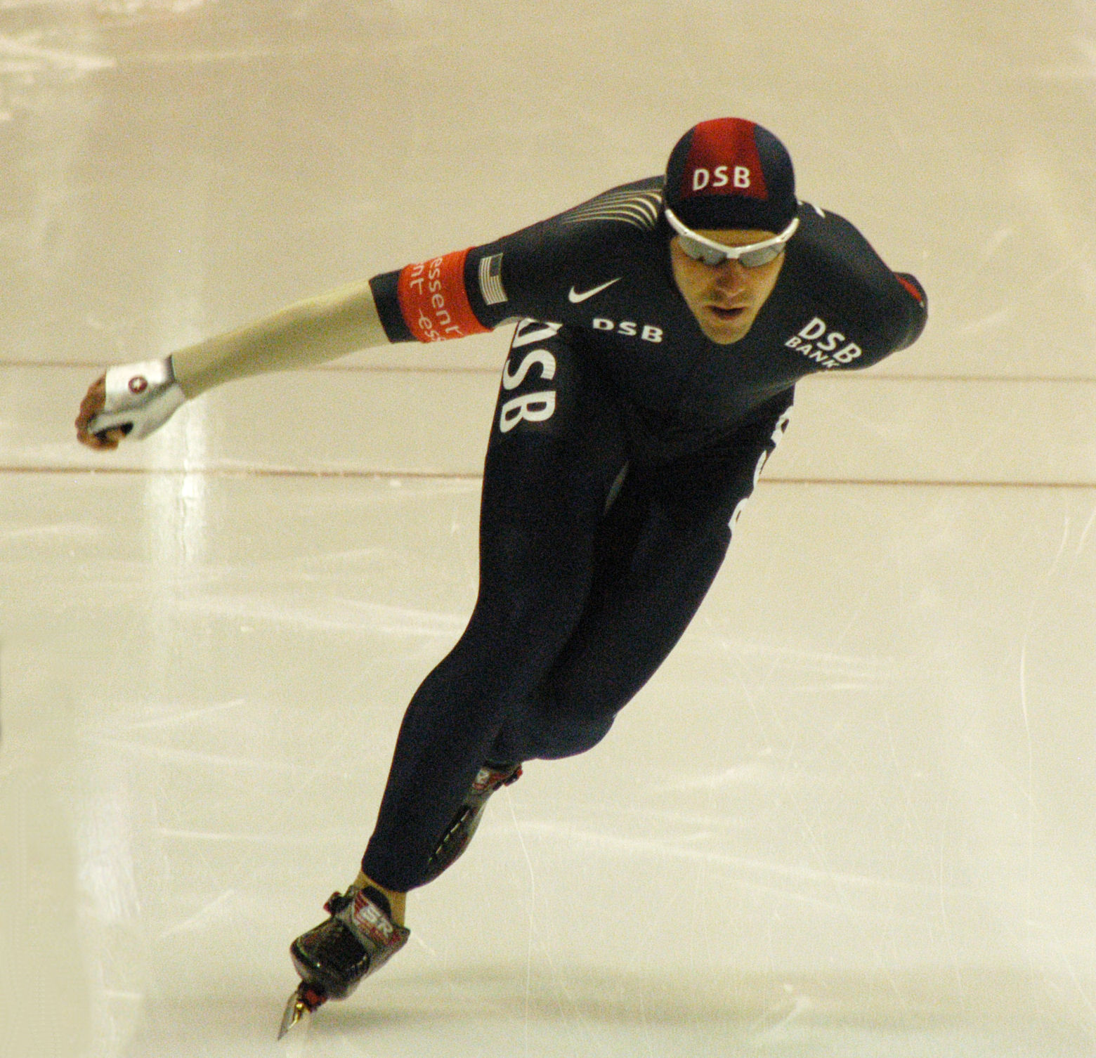 Chad Hedrick (USA) in action at a world cup speedskating in Heerenveen, the Netherlands.